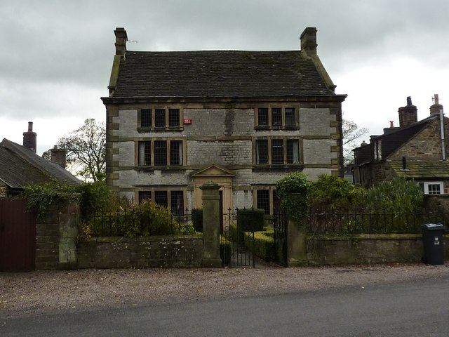 Georgian house in Great Hucklow